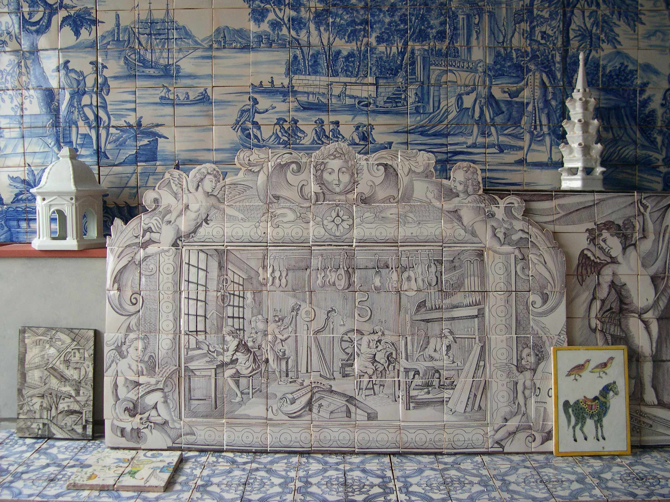 Examples of azulejo panels and Delft tiles, Almaviva tile studio, Paris